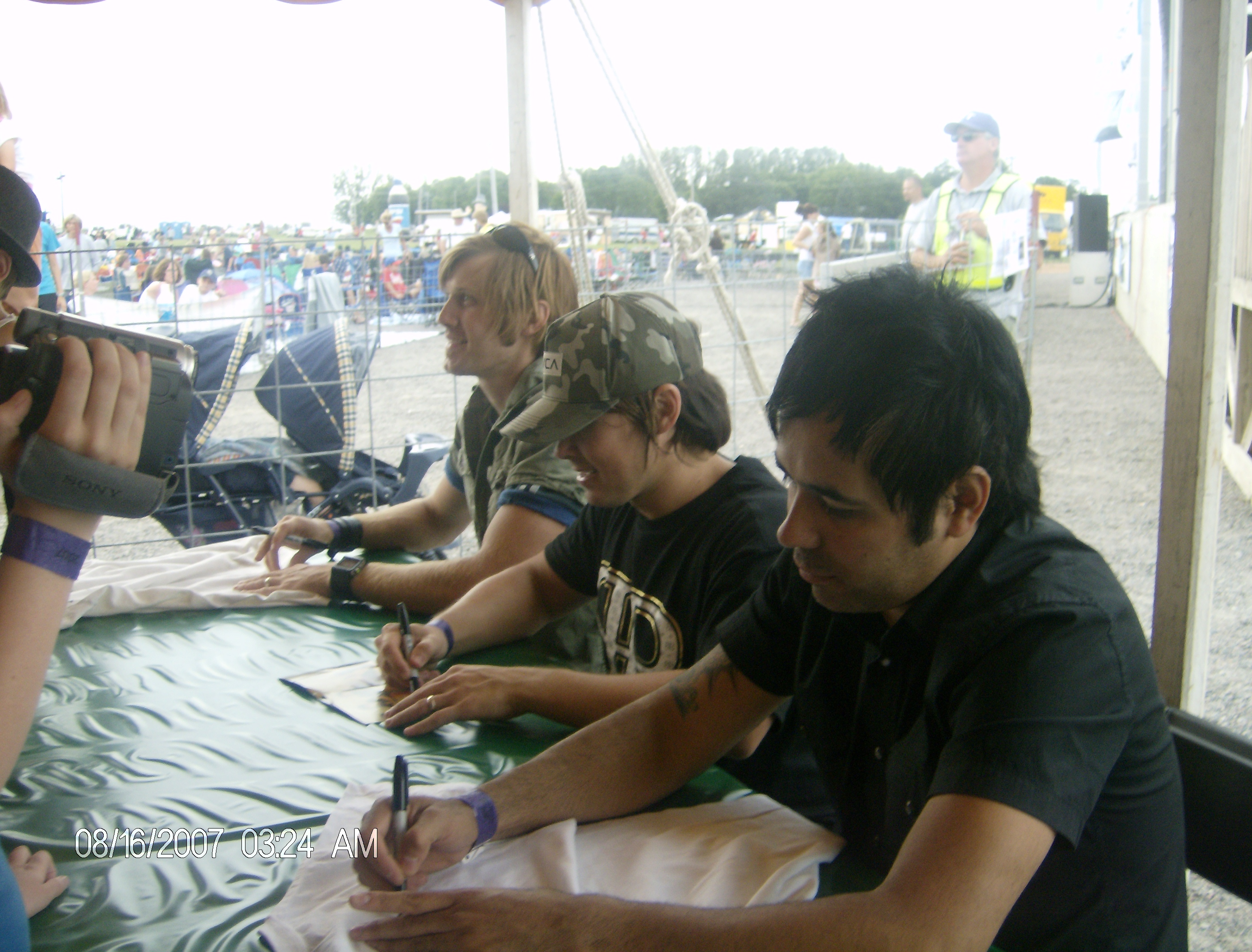 Building 429 at a meet and greet at the 2007 Higher Ground Music Festival in Winsted, MN.